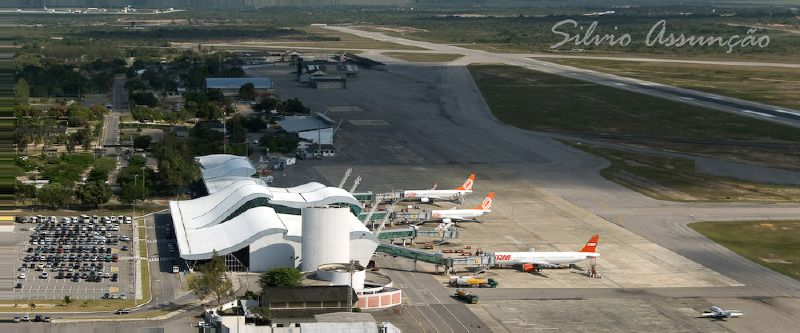 Augusto Severo International Airport in Natal, Rio Grande do Norte, Brasil.